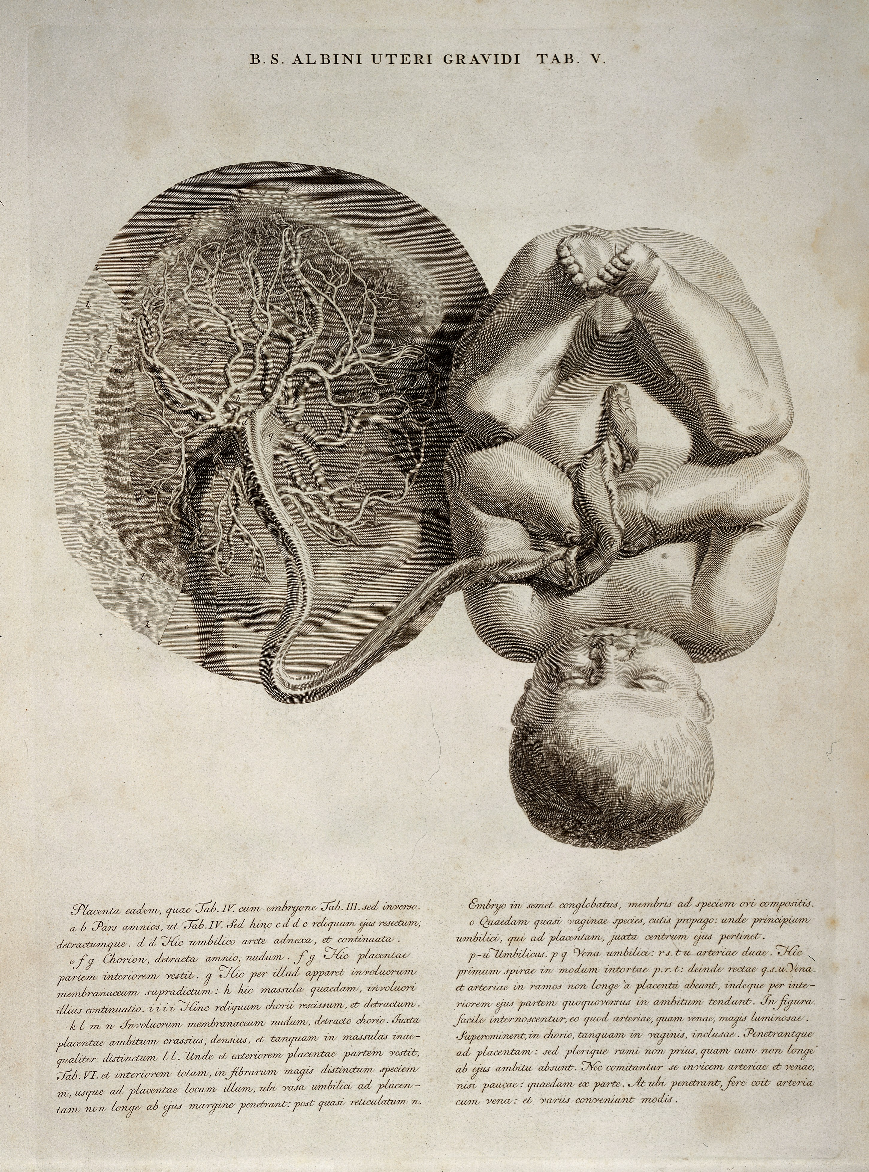 Tab. V, fetus attached to umbilical cord and placenta. Wellcome Images Keywords: Bernhard Siegfried Albinus